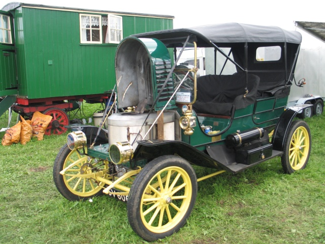 Great Bucks Steam Rally, Shabbington, 2009 Stanley Steamer.